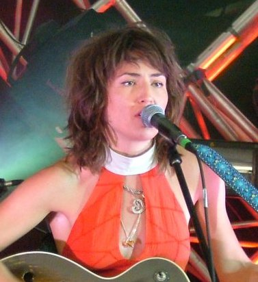 Joan Wasser playing at the Summer Sundae festival, Leicester, England, 2006. Author: Mike Higgott.